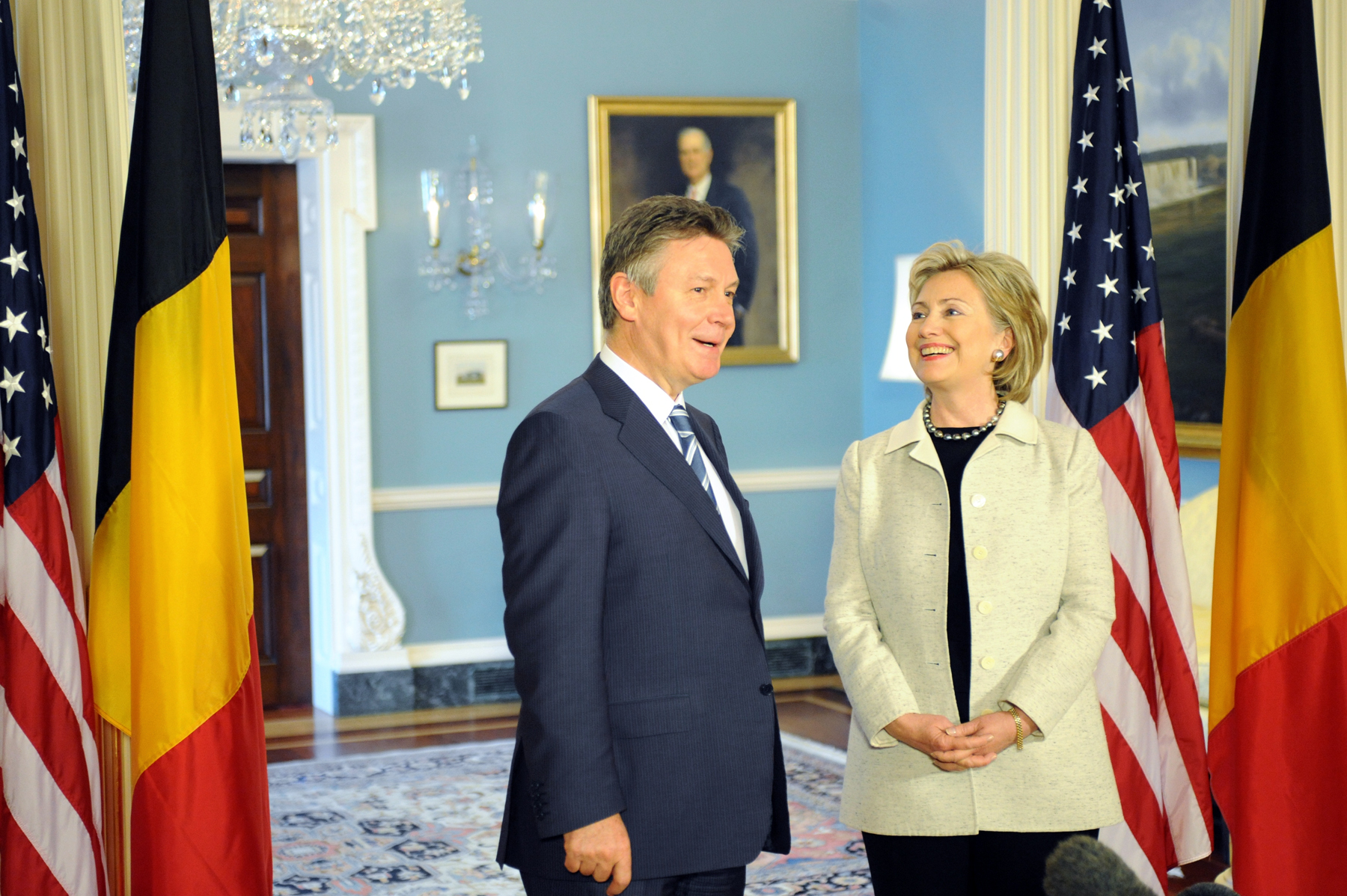 U.S. Secretary of State Hillary Rodham Clinton hosts a bilateral meeting with Belgian Deputy Prime Minister Karel De Gucht in the Treaty Room of the U.S. Department of State in Washington, DC May 22, 2009. [State Department photo by Michael Gross]